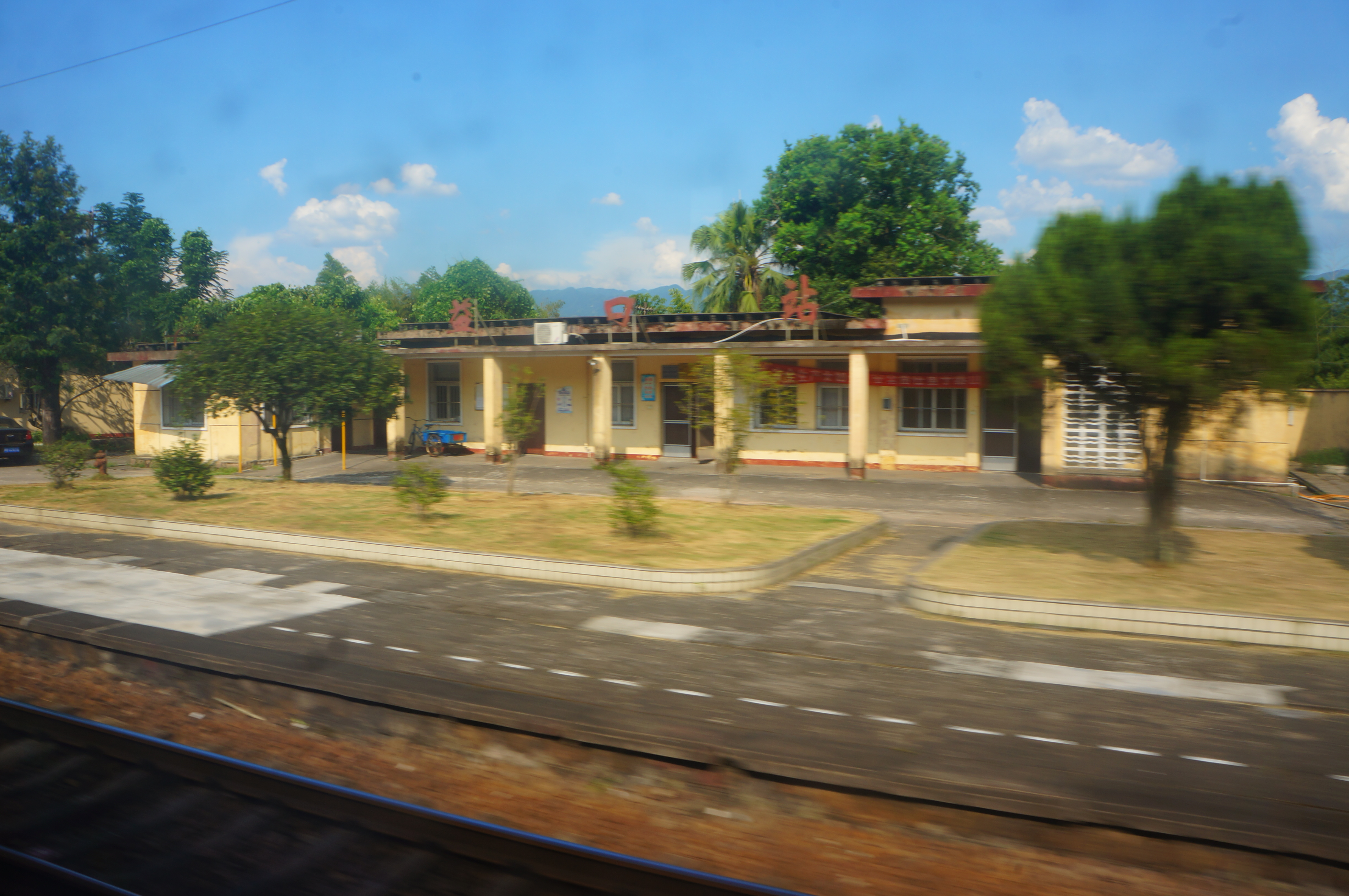 Ek Khau Station. Next Station, Sai Khi.